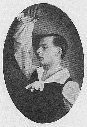 Finnish dancer Alexander Saxelin, early 1930s.